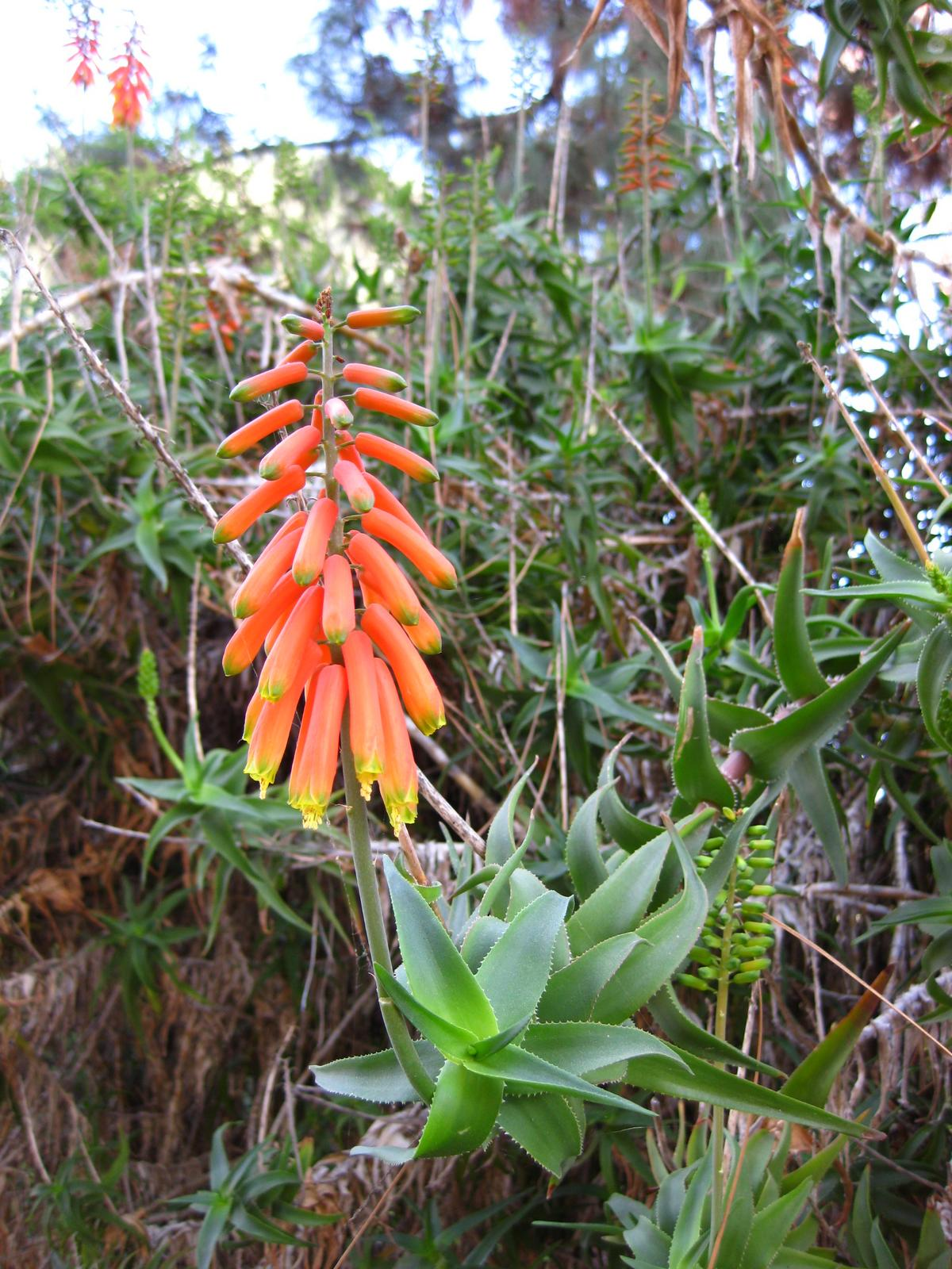 Aloe ciliaris - vine aloe. Photographed at Mildred E. Mathias Botanical Garden at UCLA, Westwood, (Los Angeles, California) - in November.